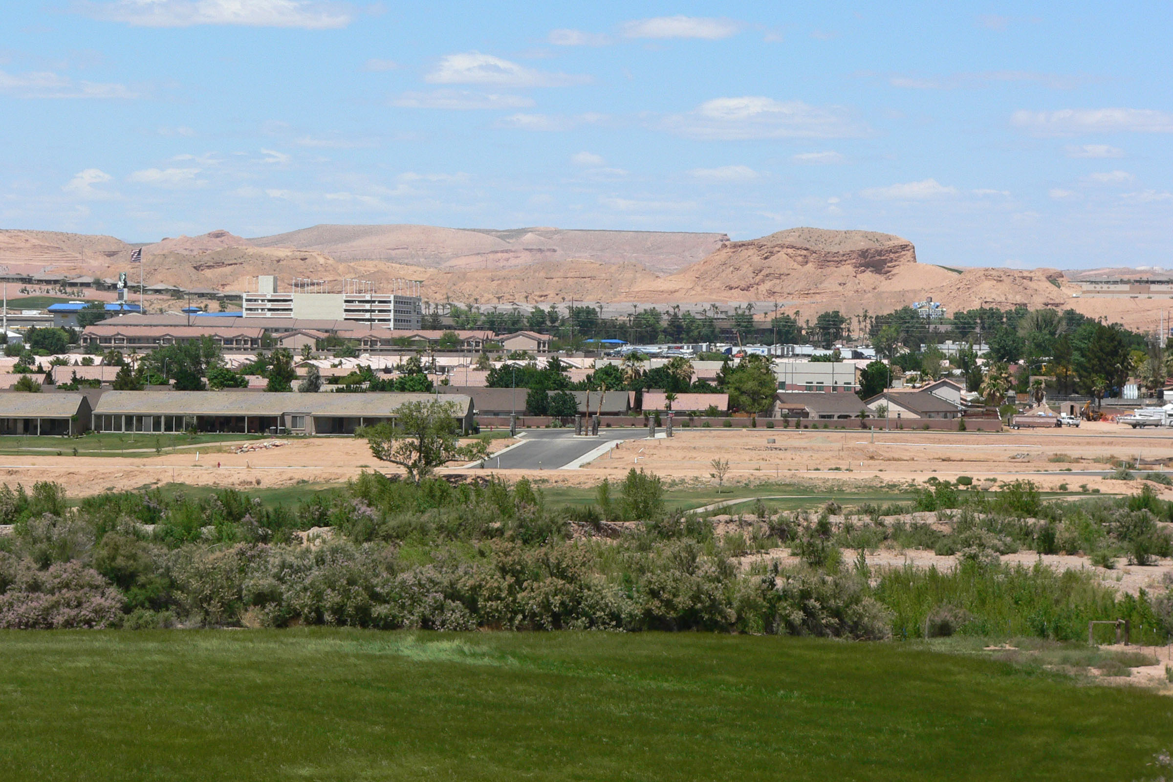 Mesquite, Nevada seen from across the Virgin River